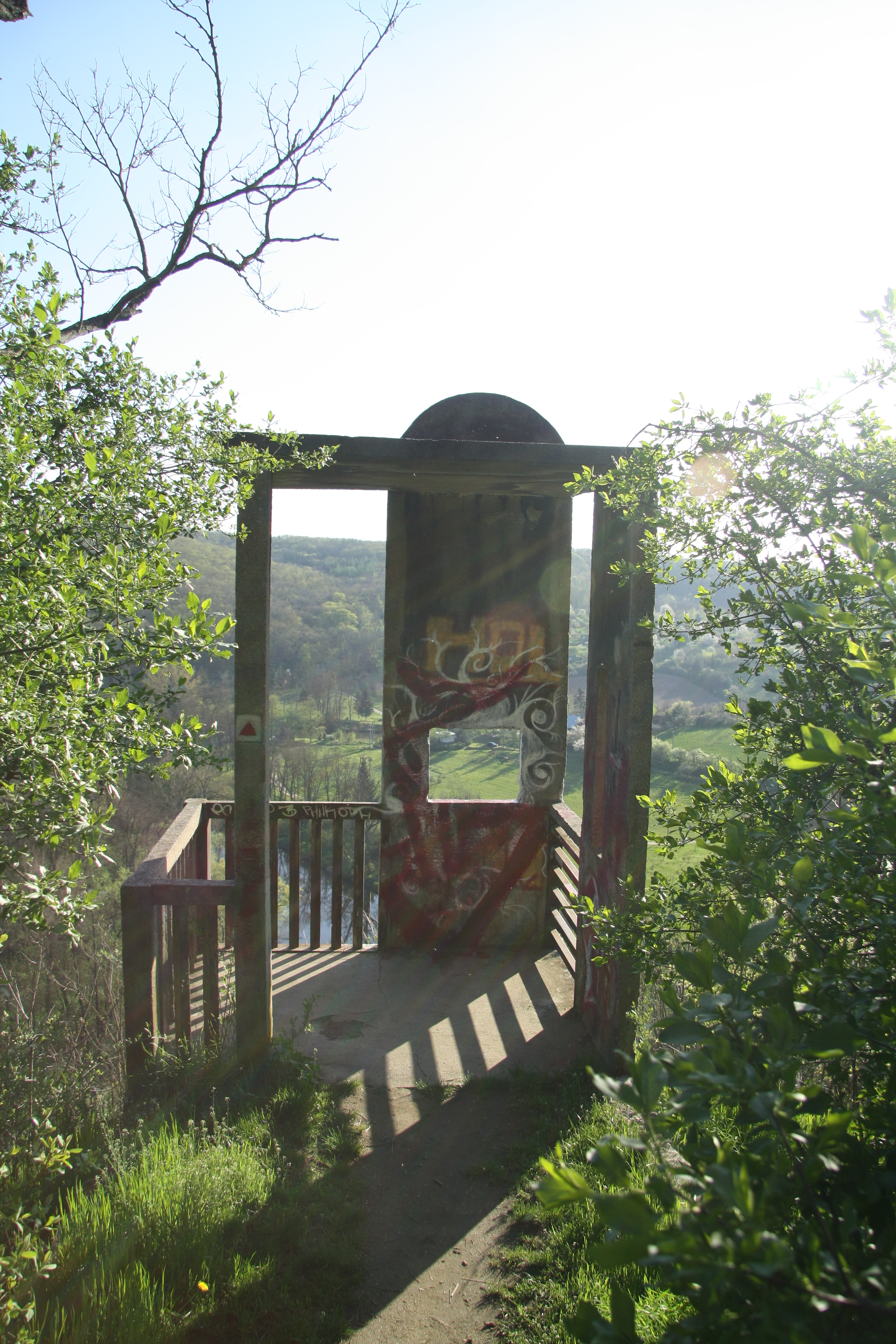 Backview of Na Oklikách viewtower in Ivančice, Brno-Country District.